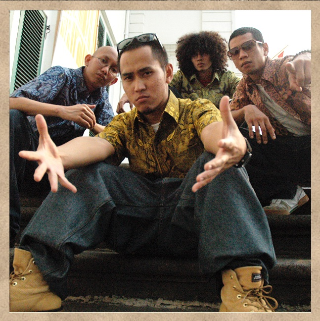 B-Tribe